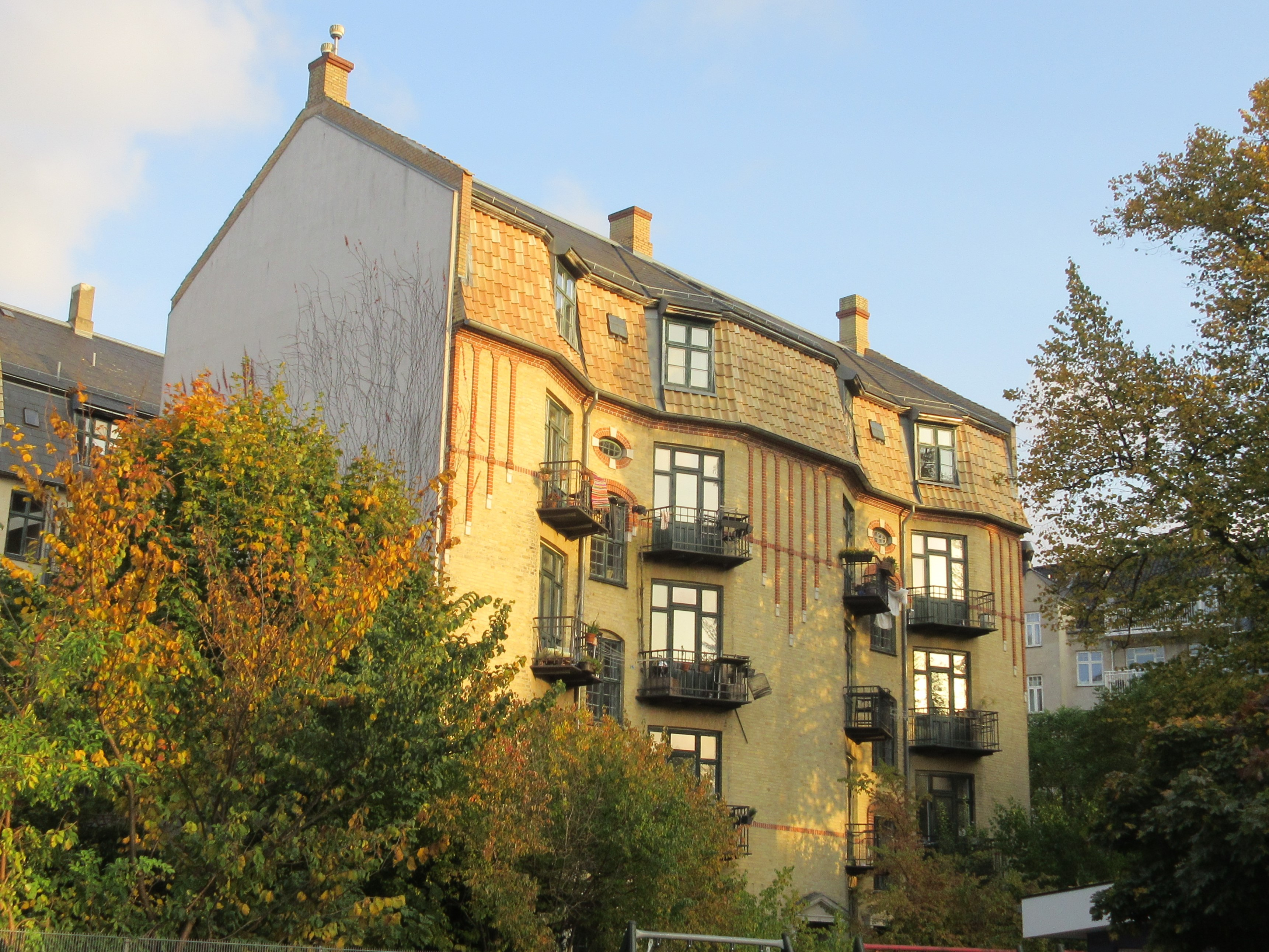 Building to the rear of No. 28 in Absalonsgade as seen from Skydebanehaven in Copenhagen, Denmark